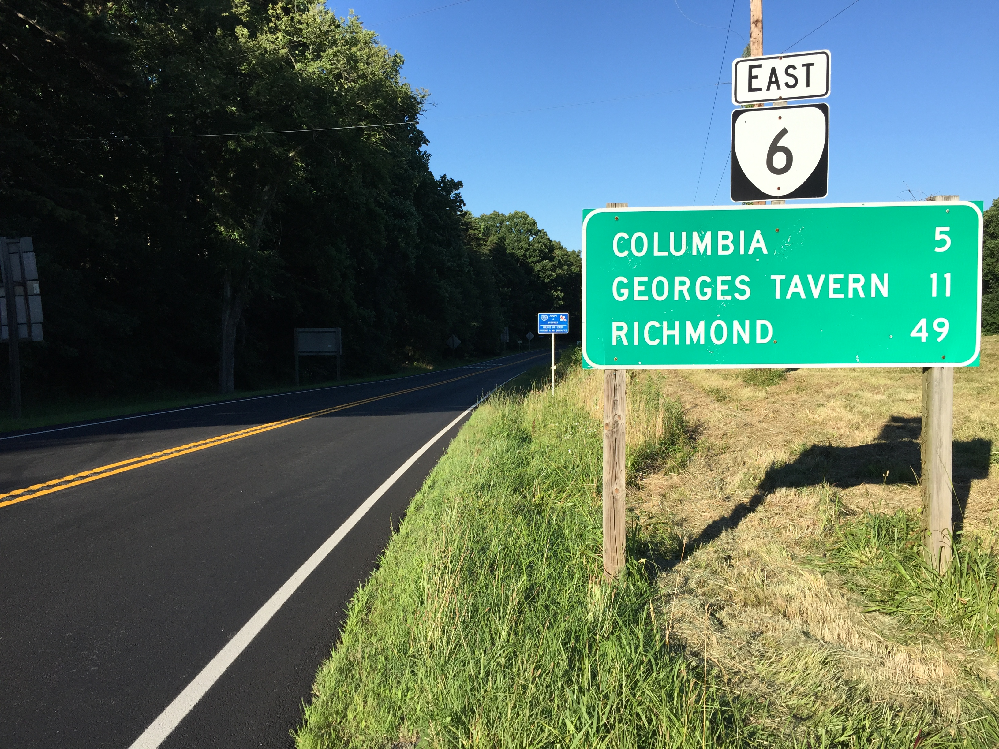 View east along Virginia State Route 6 at U.S. Route 15 (James Madison Highway) in Dixie, Fluvanna County, Virginia